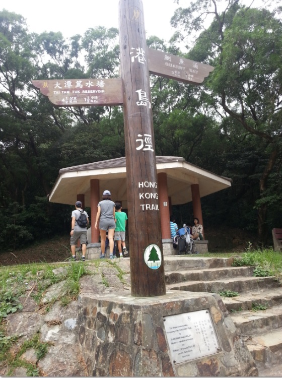 The sign of the Hong Kong Trail